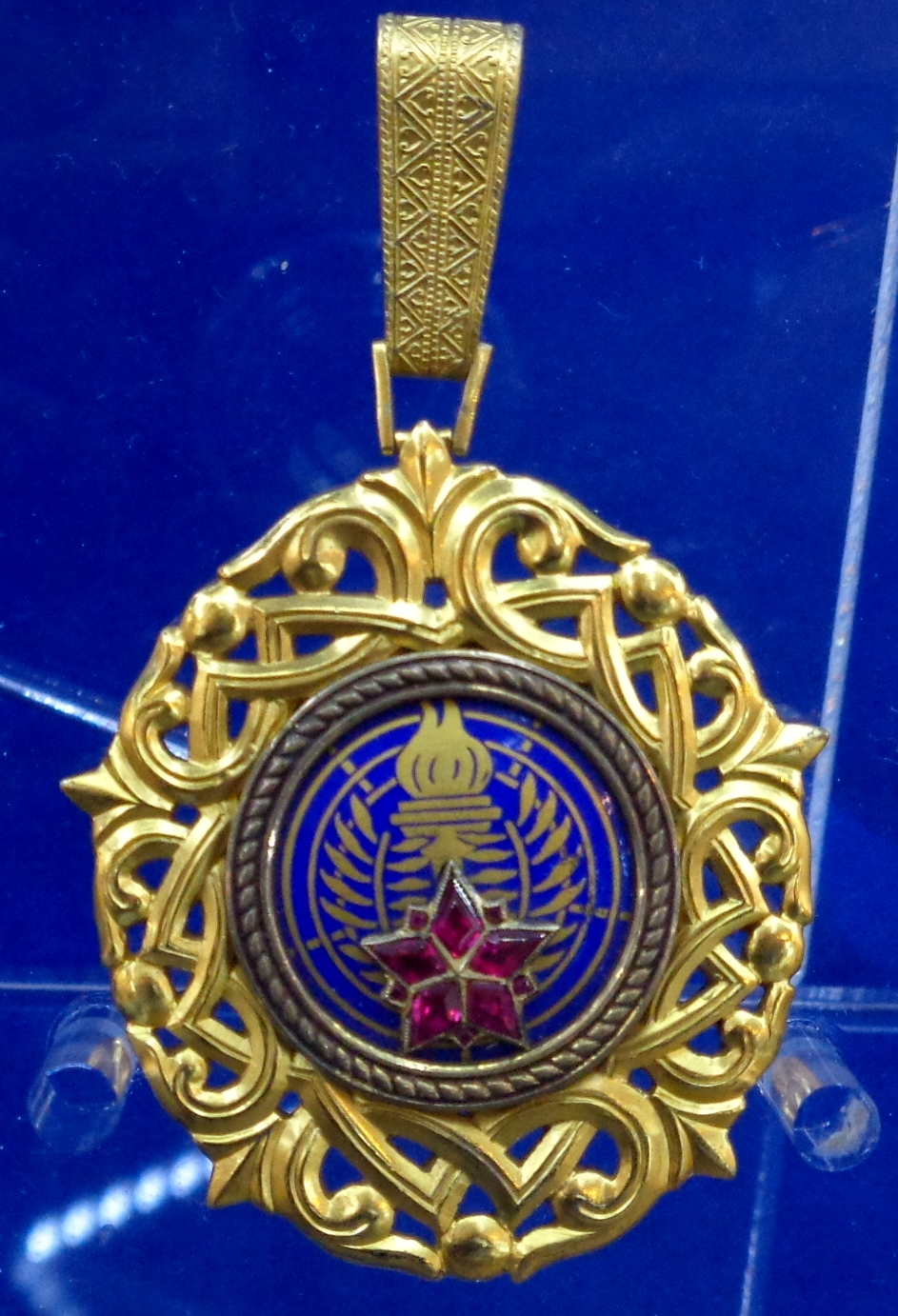 Order of the Yugoslav Star 2nd class, badge. Yugoslavia. The exhibition of the Tallinn Museum of Orders of Knighthood, Estonia.